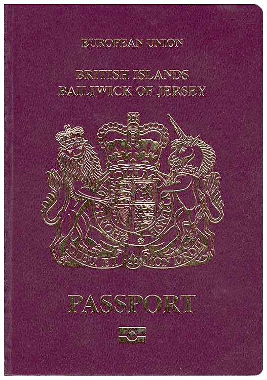 Jersey passport